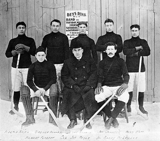 Dawson City Nuggets ice hockey team in front of Dey's Arena in OttawaBack row, left to right: Hector Smith, George Kennedy, Lorne Hannay, Jim Johnston, Norman WattFront row, left to right: Albert Forrest, Joseph Boyle, Randy McLennan